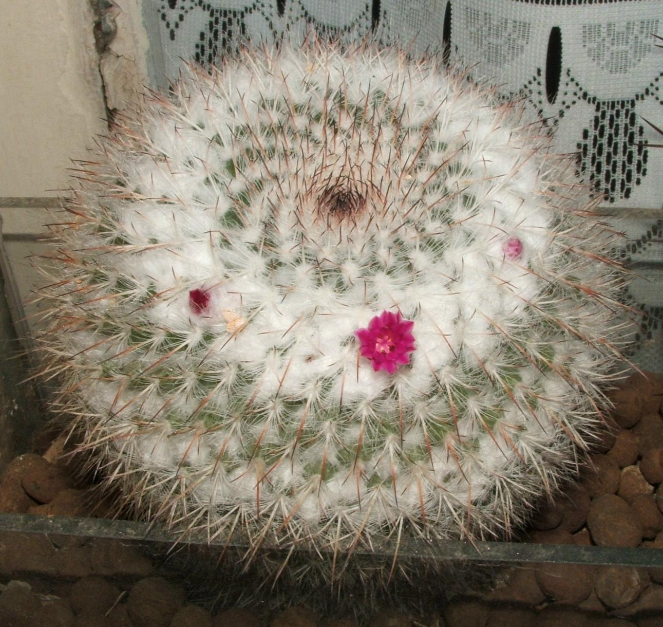 This image is misnamed, it should be Mammillaria brauneana, with an 'R'; see [1]. Mammillaria klissingiana